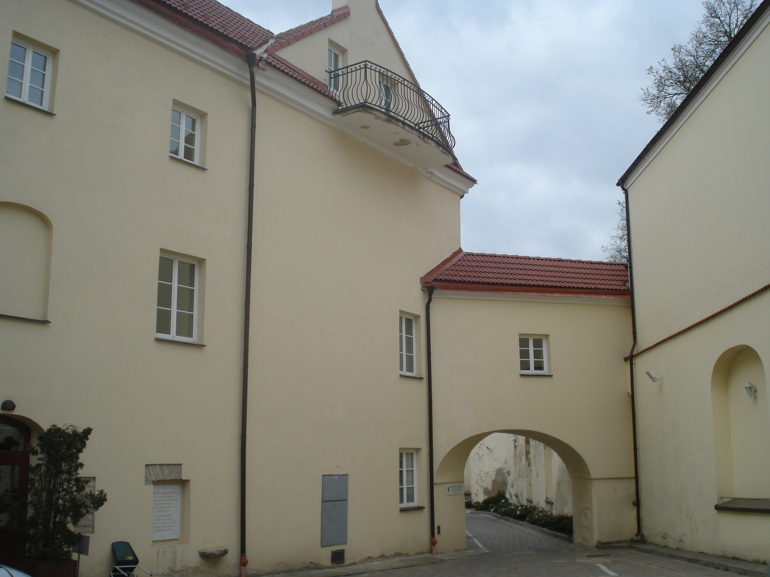 The Discalced Carmelite Cloister in Vilnius (Aušros Vartų g. 14)